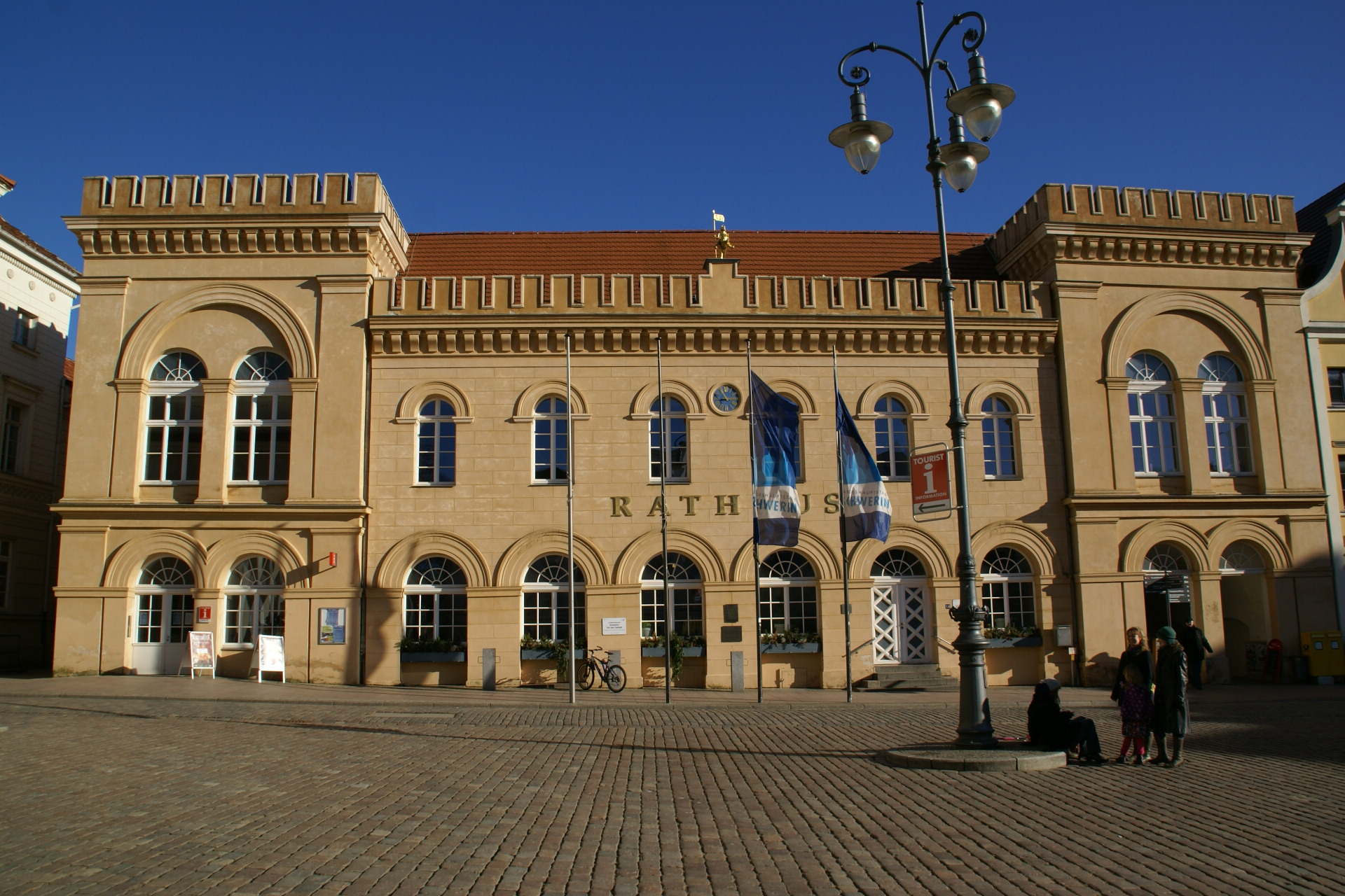 Town Hall at the Market Square in Schwerin, Germany